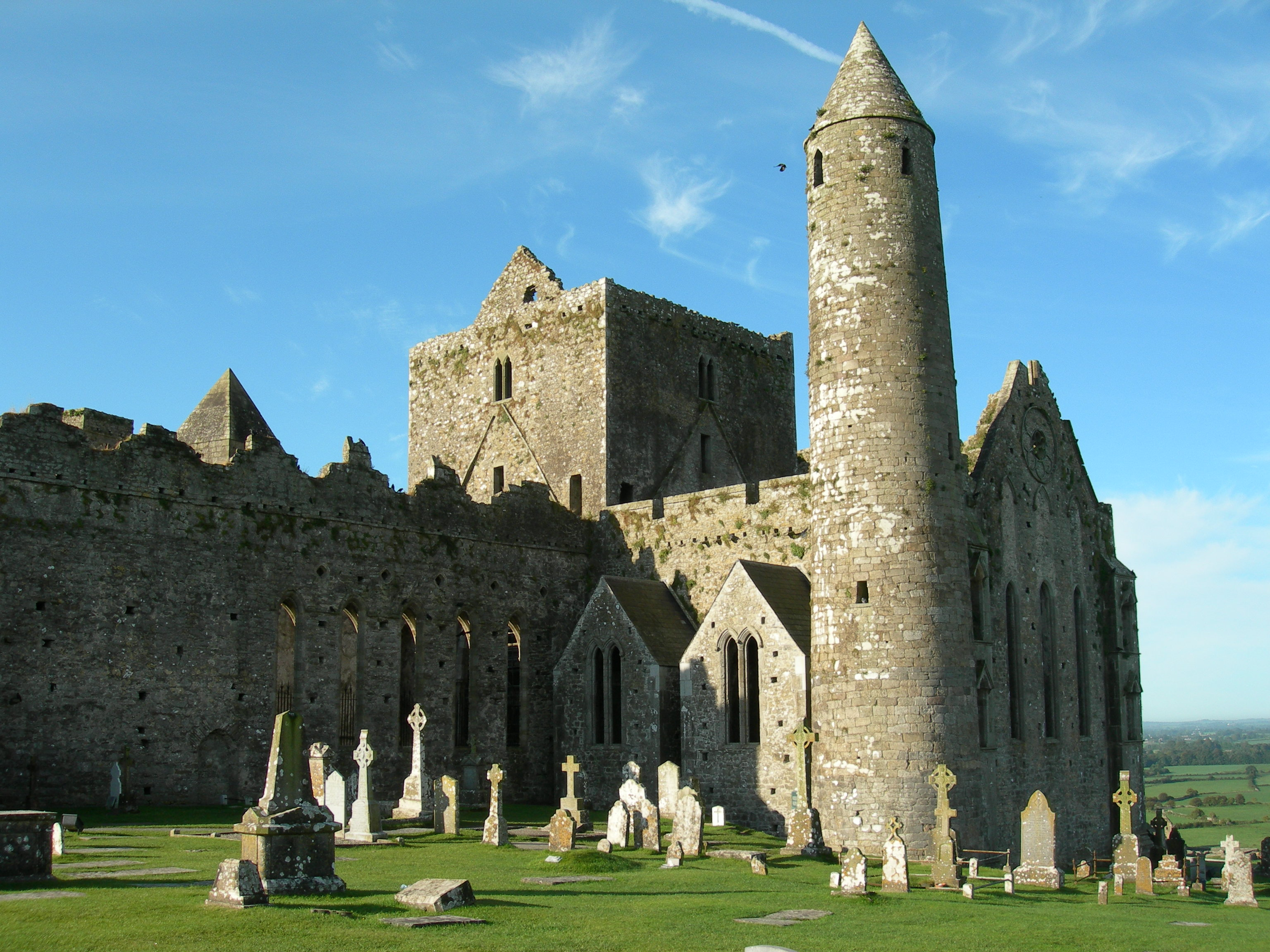 Church and Tower at Rock of Cashel